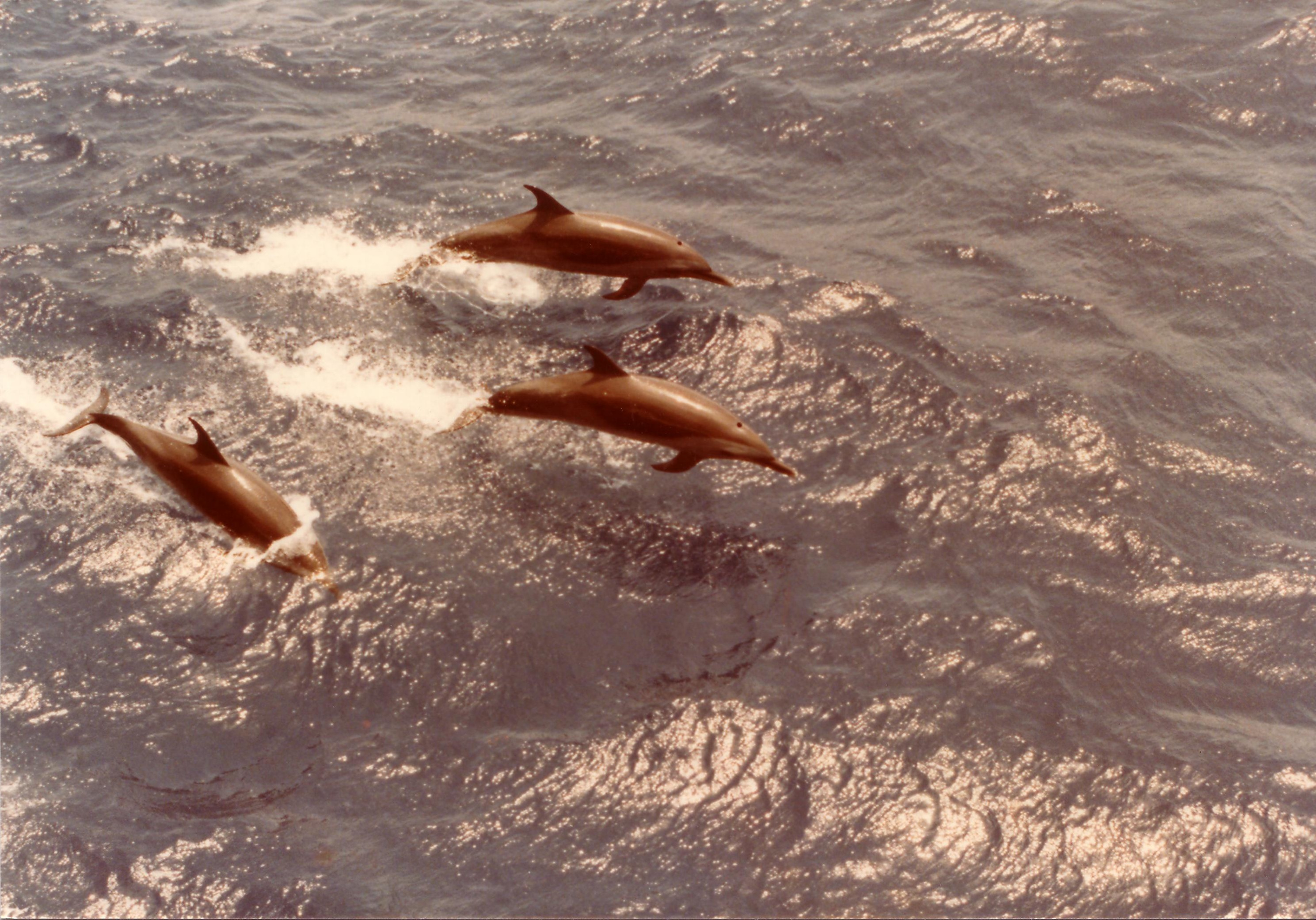 Dolphins jumping in the Gulf of Mexico